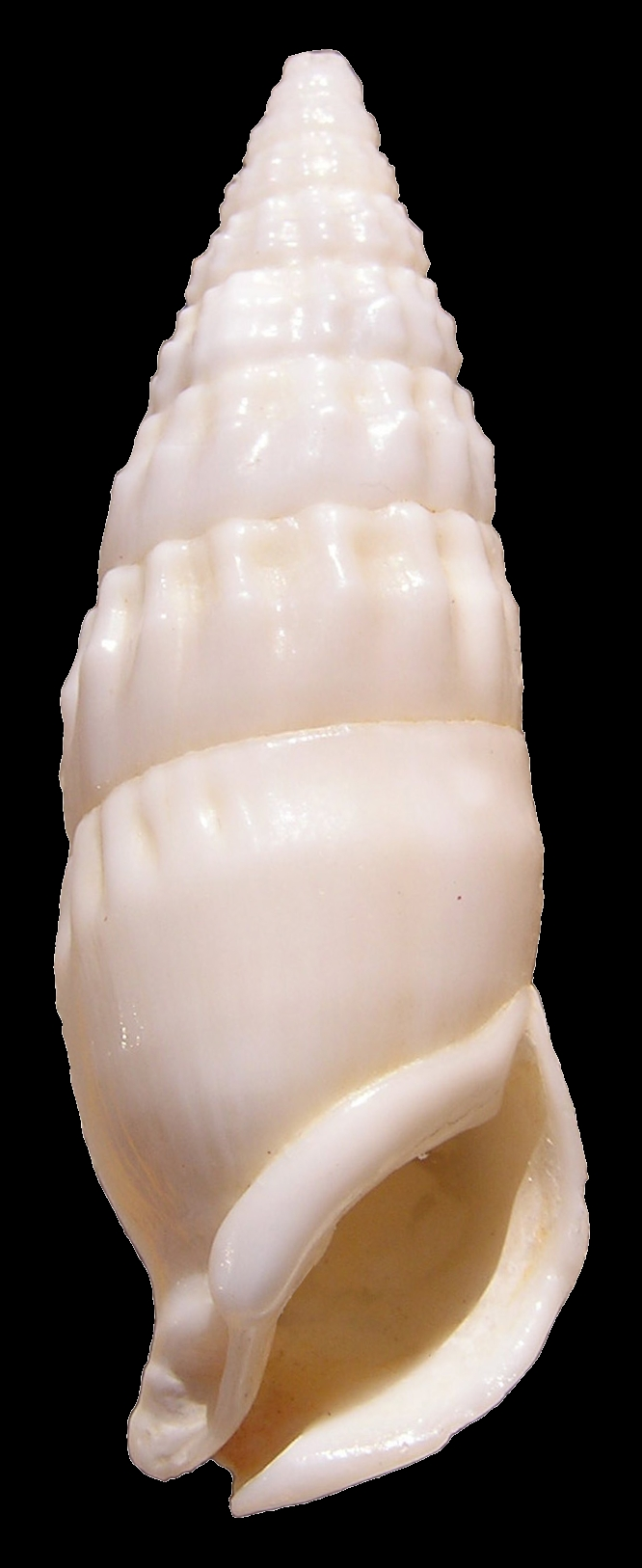 shell of Rhinoclavis vertagus